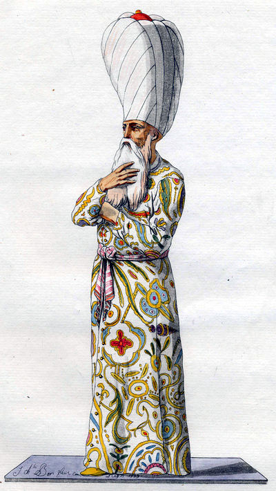 "Conseiller" to the Sultan of Egypt. Wise, old, mystic men played an important role in setting the direction and policies of Egypt under the rule of the Mamluks.